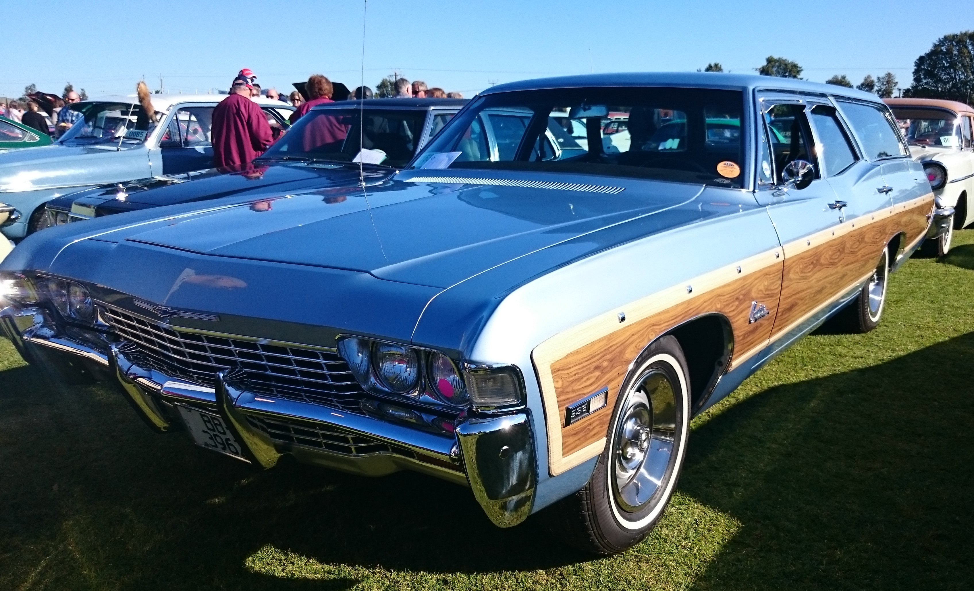 1968 Chevrolet Caprice Estate Wagon